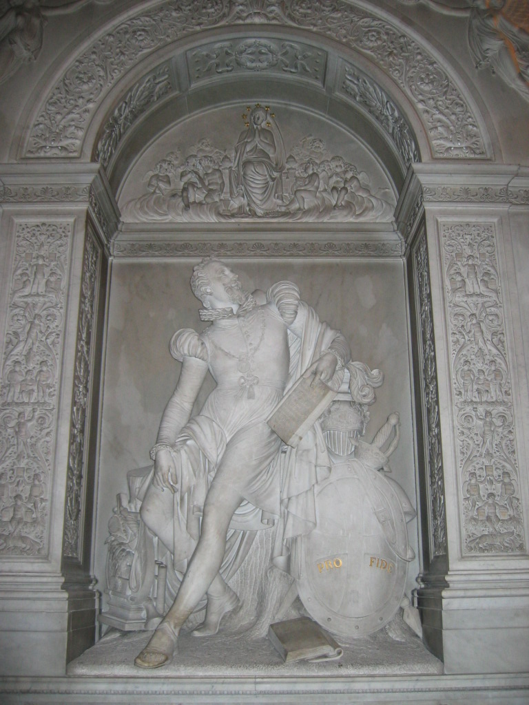 Monument to Torquato Tasso, Sant'Onofrio al Gianicolo, Rome. Picture taken by User:Torvindus.